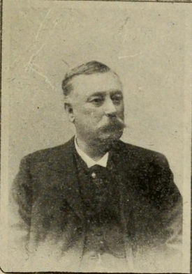 Portrait of Hajnal Antal